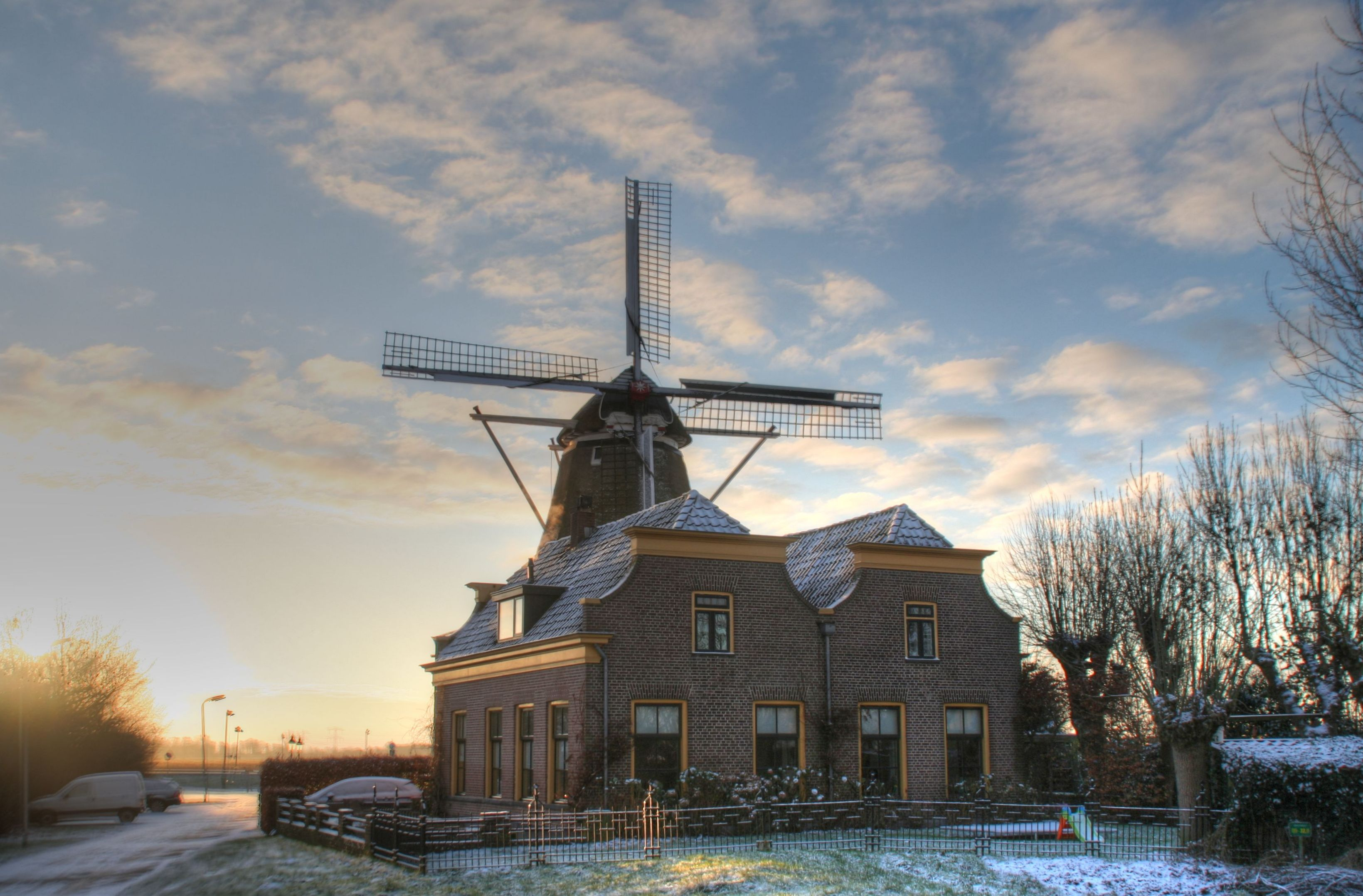 Wiekenactie De Zwaluw